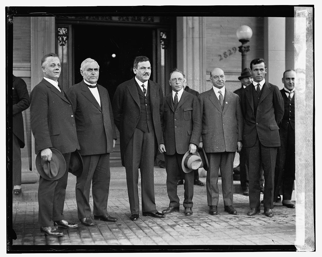 Gen. P.E. Calles at Amer. Fed. of Labor Bldg., 10/31/24